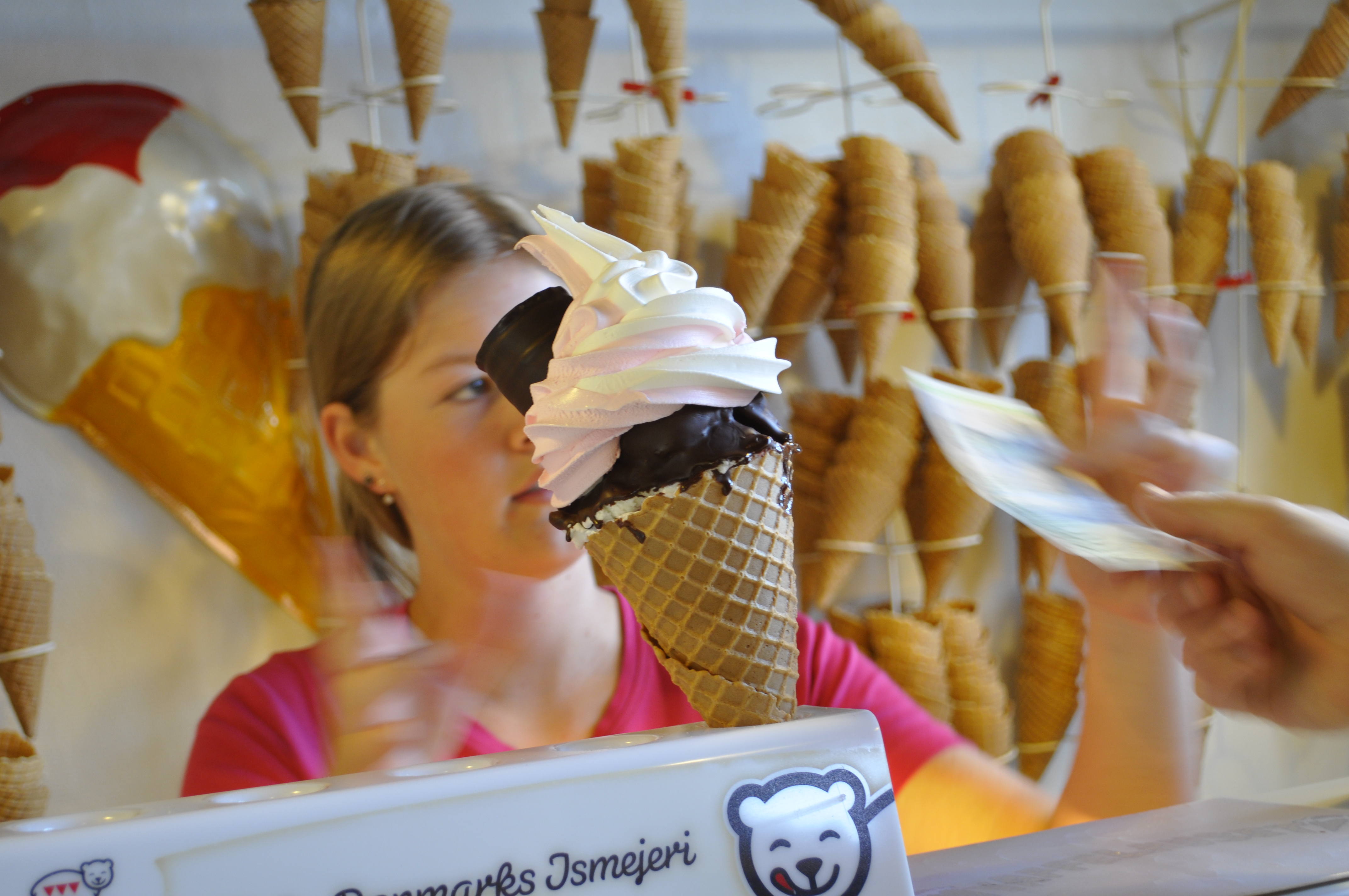 This was an epic ice-cream I ever eat.